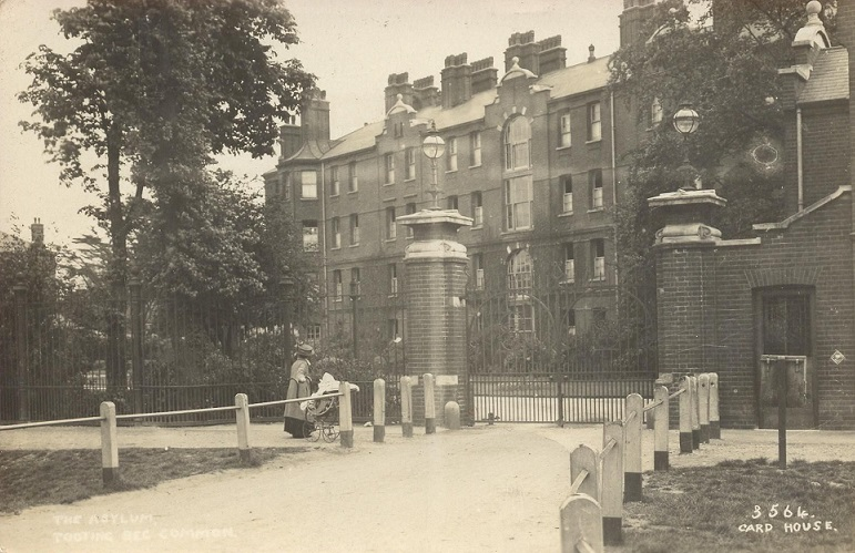 Old postcard of Tooting Bec Asylum